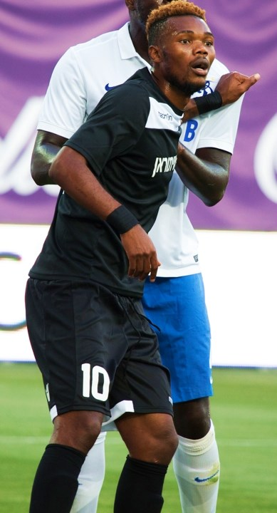 Rodgers Kola